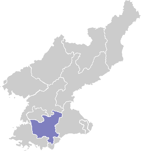 Area map of North Hwanghae province